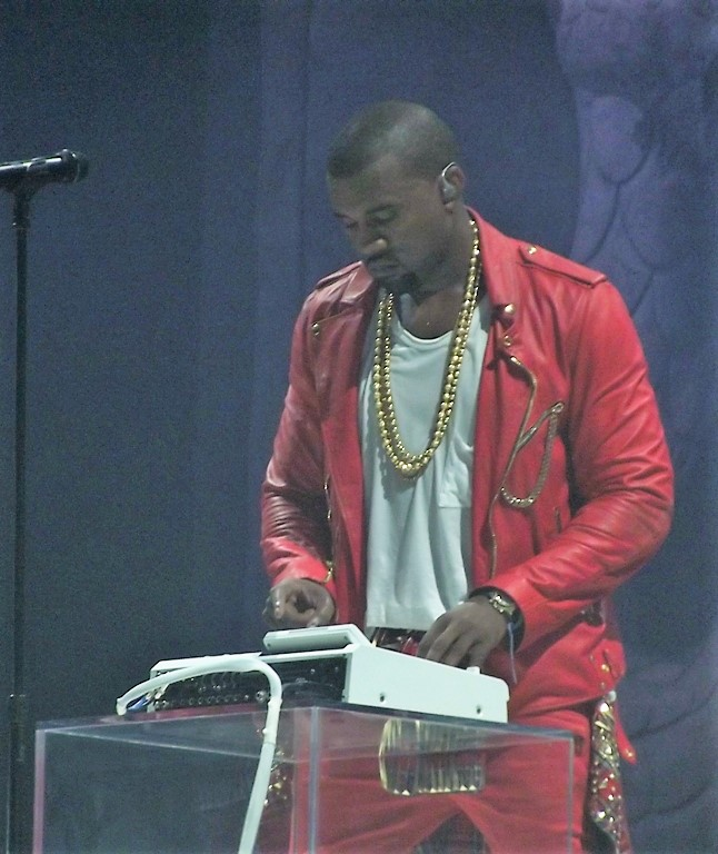 Kanye West performing the song "Runaway" at the Coke Live Music Festival on August 20, 2011 in ̺Kraków, Poland.